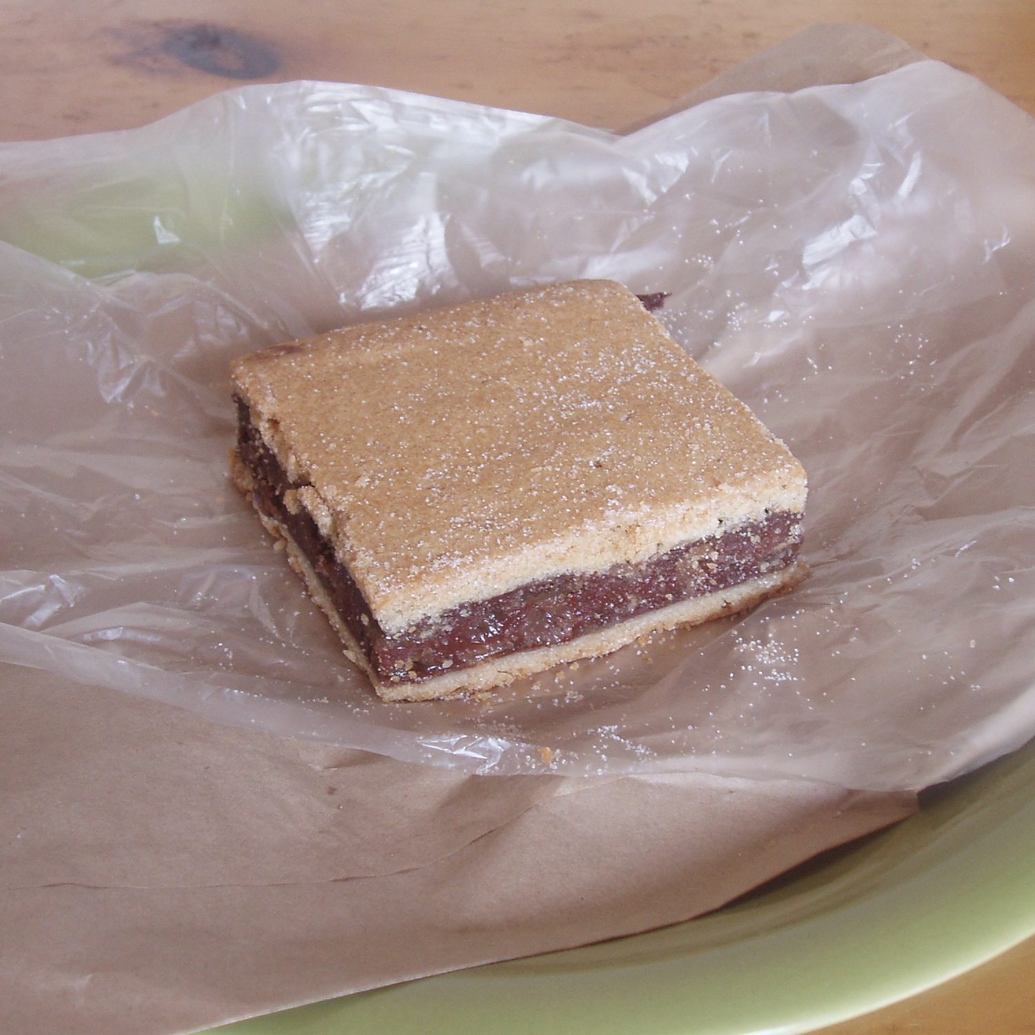 A piece of gur cake